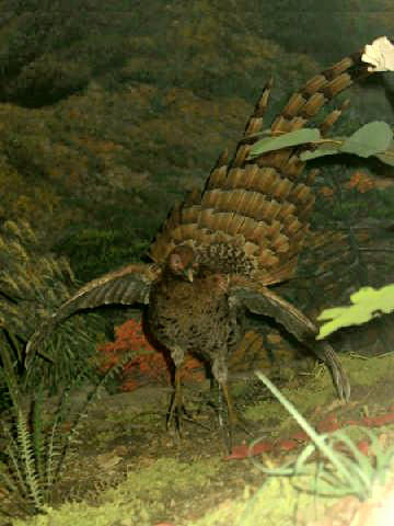 Description: Copper Pheasant - Source: own work - Location: AMNH, New York - Author: self, User:Stavenn